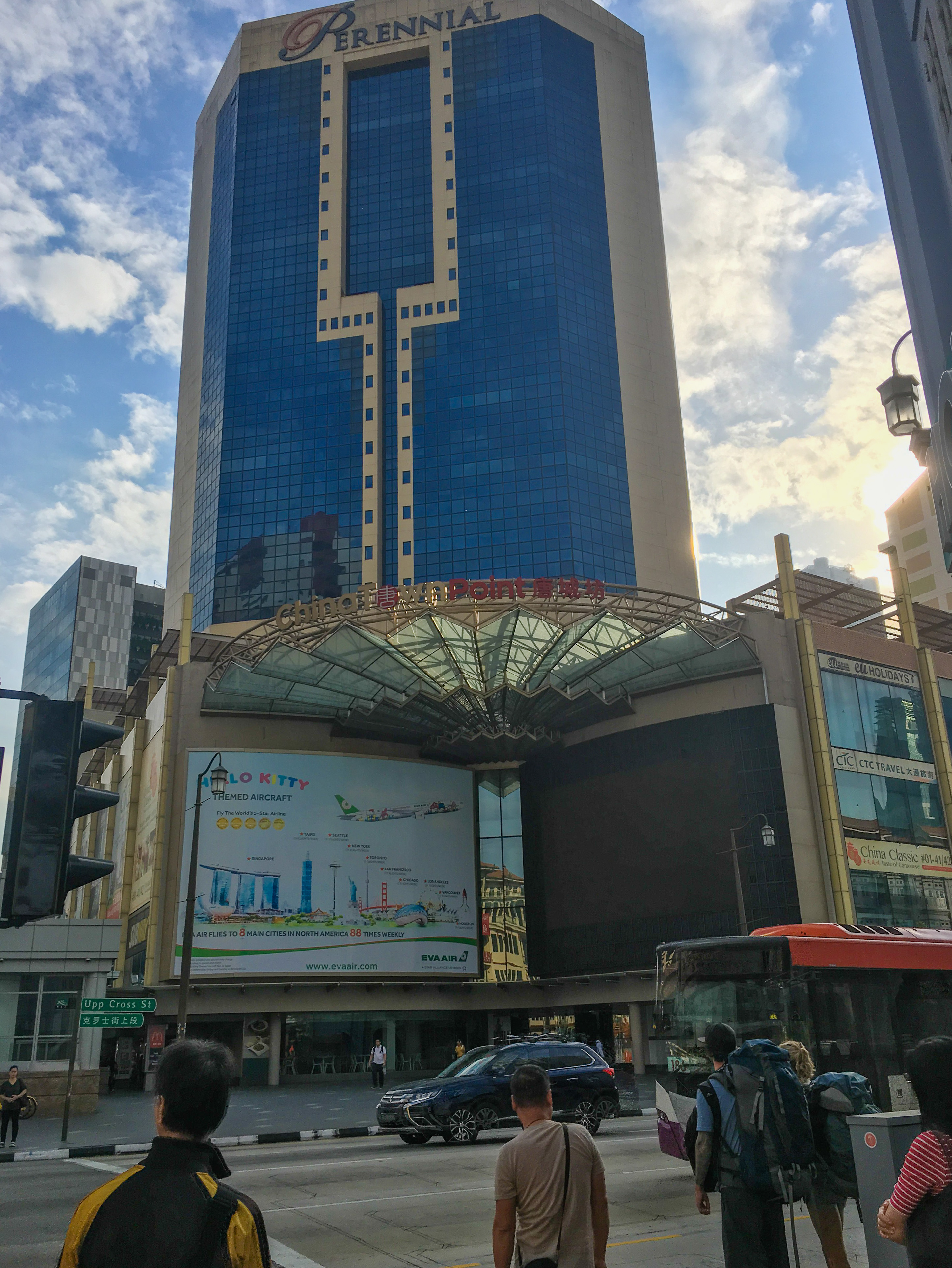 Chinatown Point